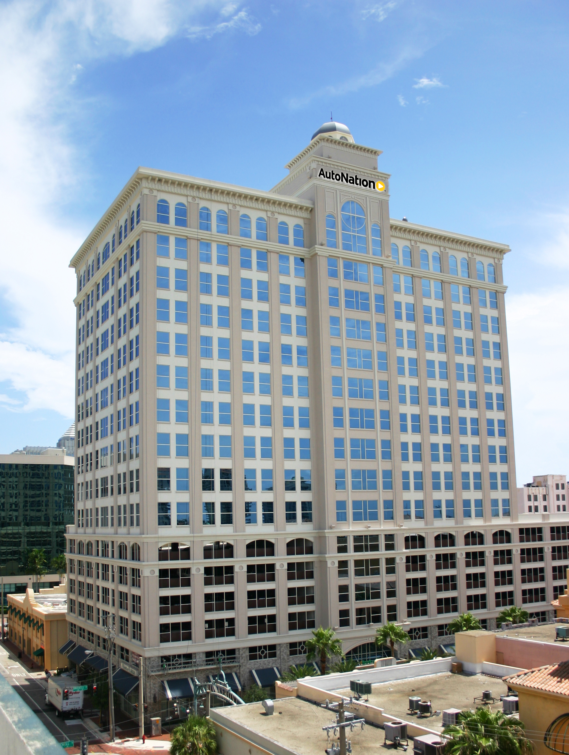 AutoNation headquarters building in Fort Lauderdale, Florida